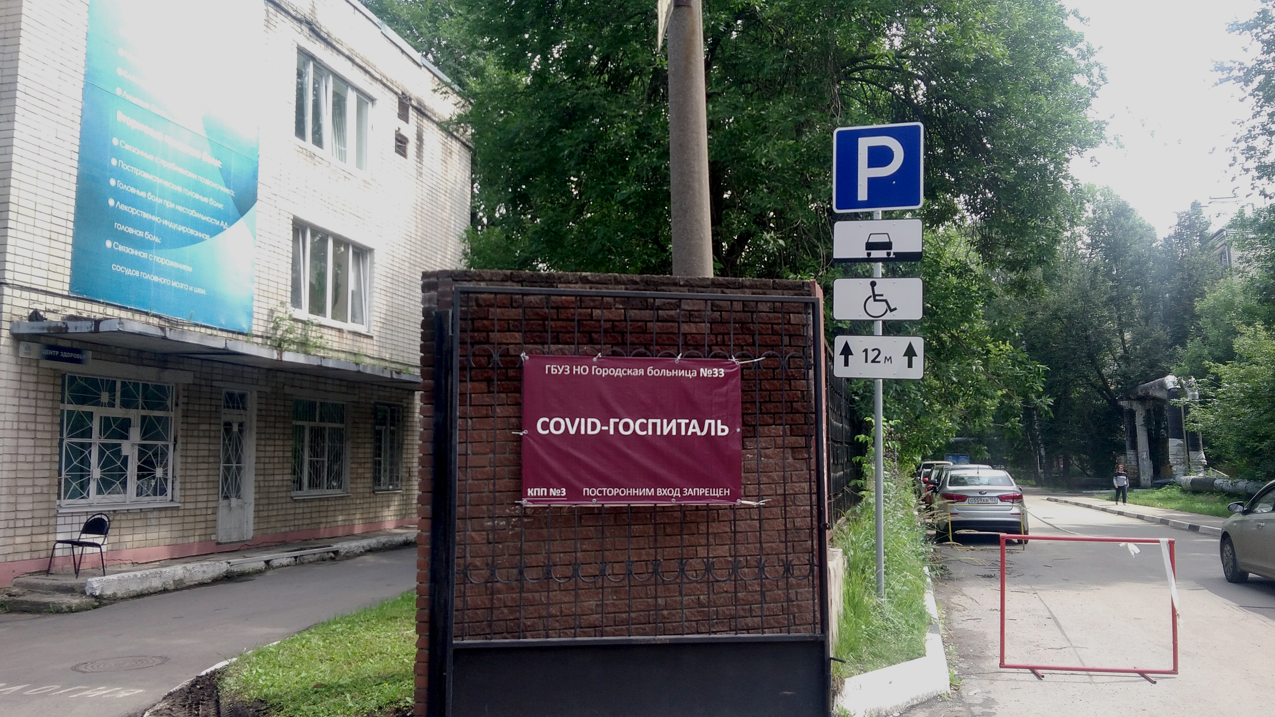 Hospital COVID-19 on the basis of City Hospital No. 33 of the Leninsky City District of Nizhny Novgorod.